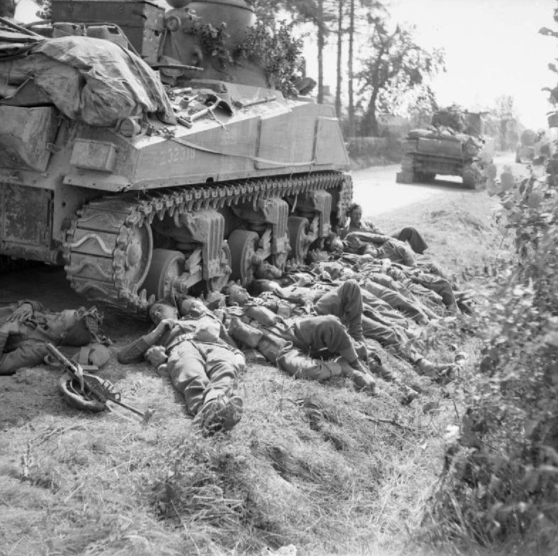 THE BRITISH ARMY IN THE NORMANDY CAMPAIGN 1944. Men of the King's Shropshire Light Infantry resting next to a Sherman tank of 3rd Royal Tank Regiment. (Probably M4A4 Sherman VC Firefly, considering turret counterweight).